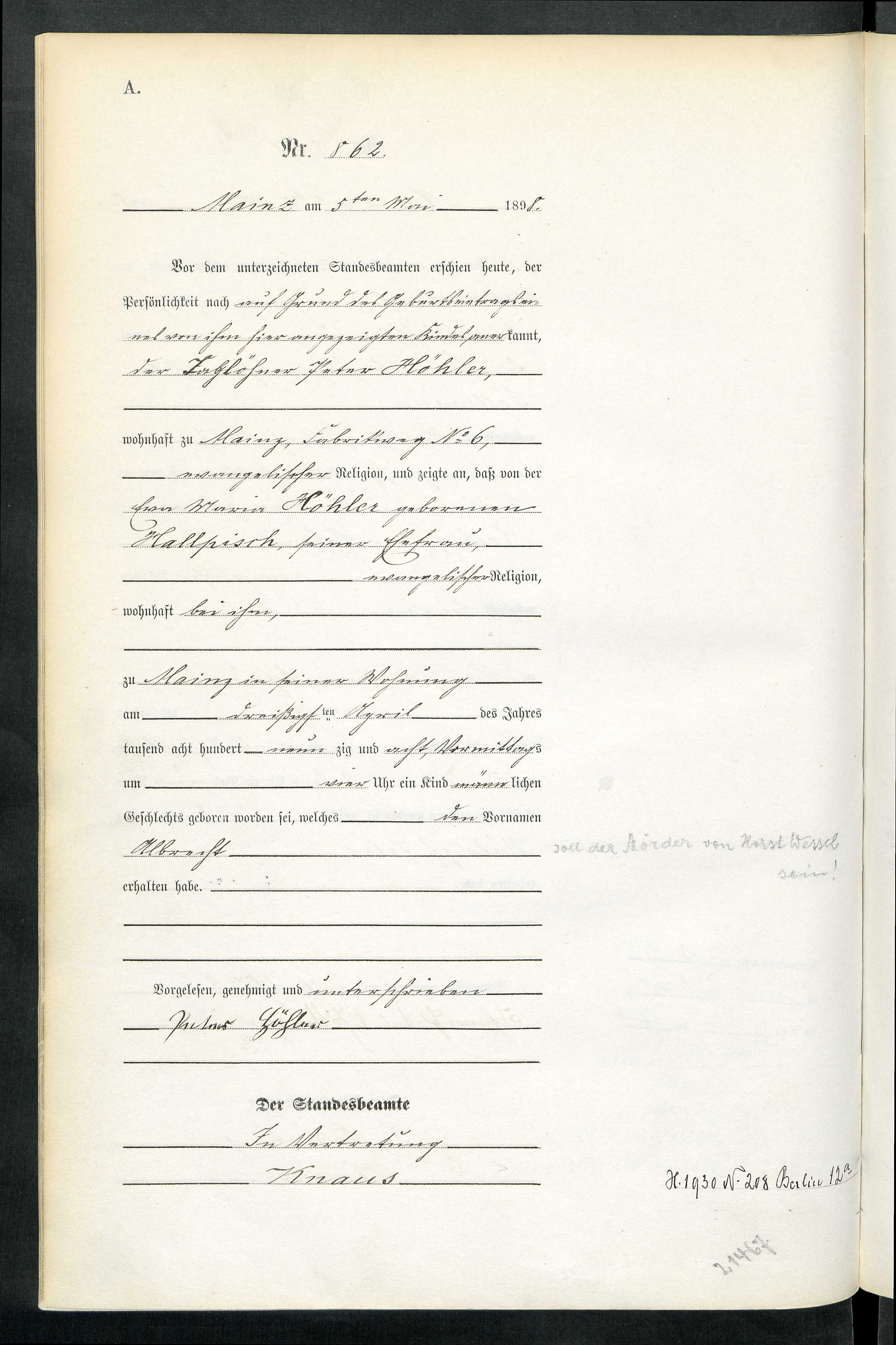 Birth ceritifcate for Albrecht "Ali" Höhler (1898-1933), who became famous as the killer of the National-Socialist "martyr" Horst Wessel.